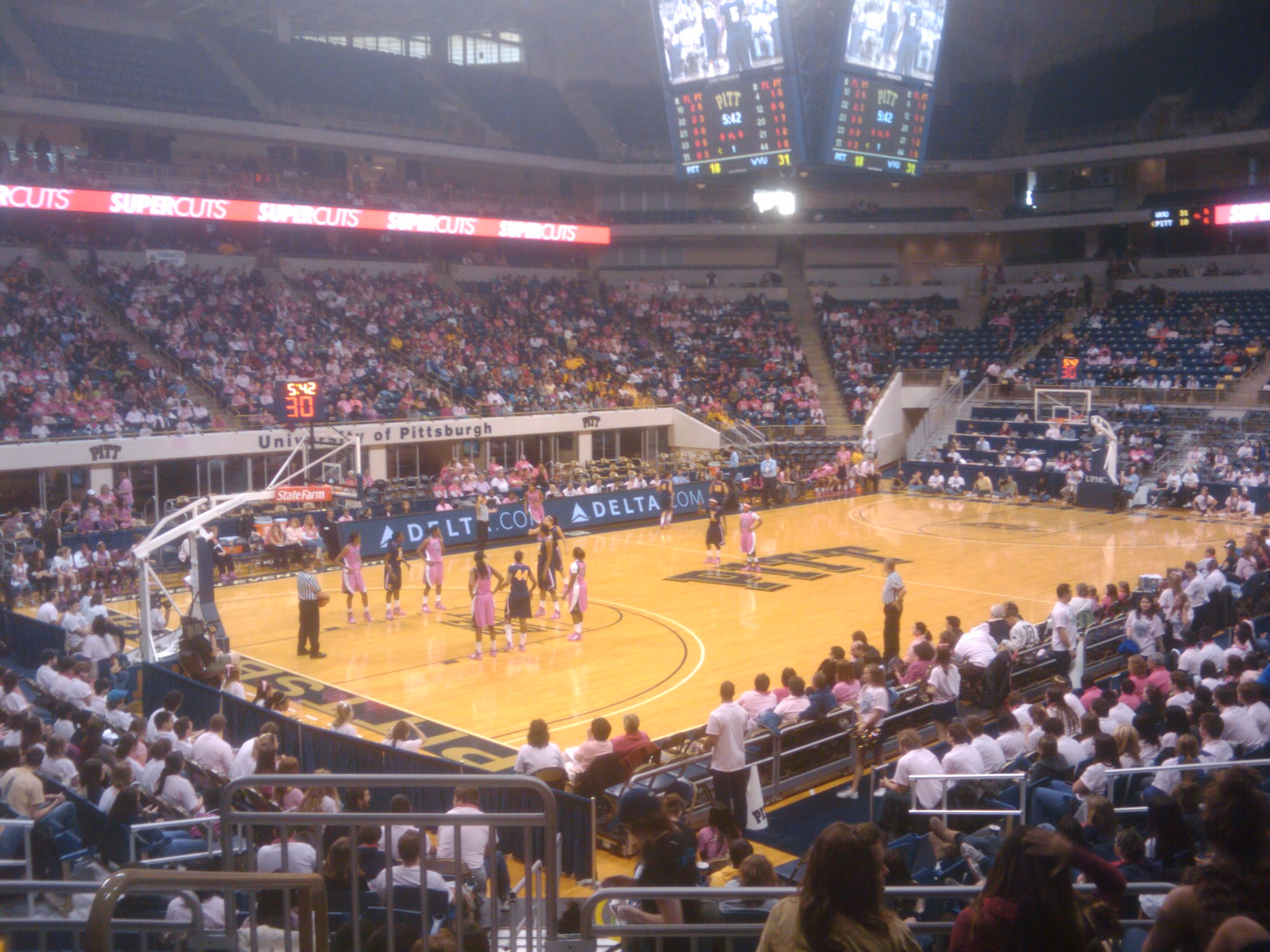 Pink! Ella is excited she gets to root for the team in pink.